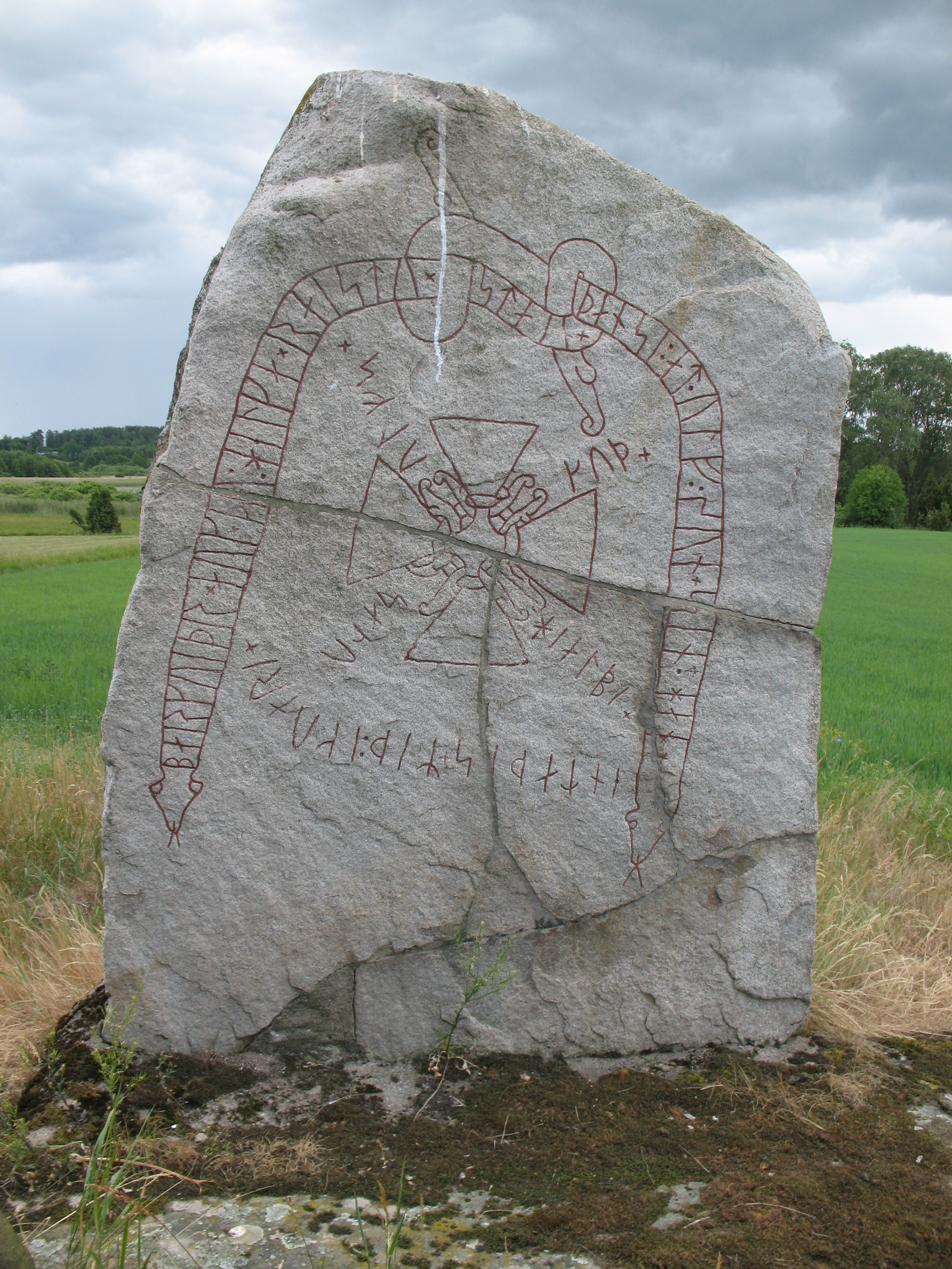 Runestone Sö 9 in Lifsinge, Gnesta.